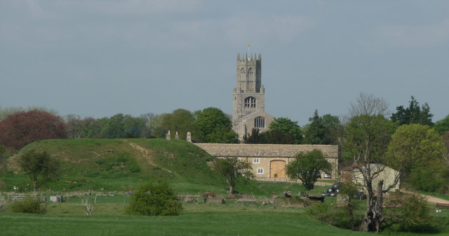 Site of Fotheringhay Castle The motte and bailey (left) is all that remains of Fotheringhay Castle, where Mary Queen of Scots was executed. Behind is the modern Castle Barn and beyond, Fotherighay Church.